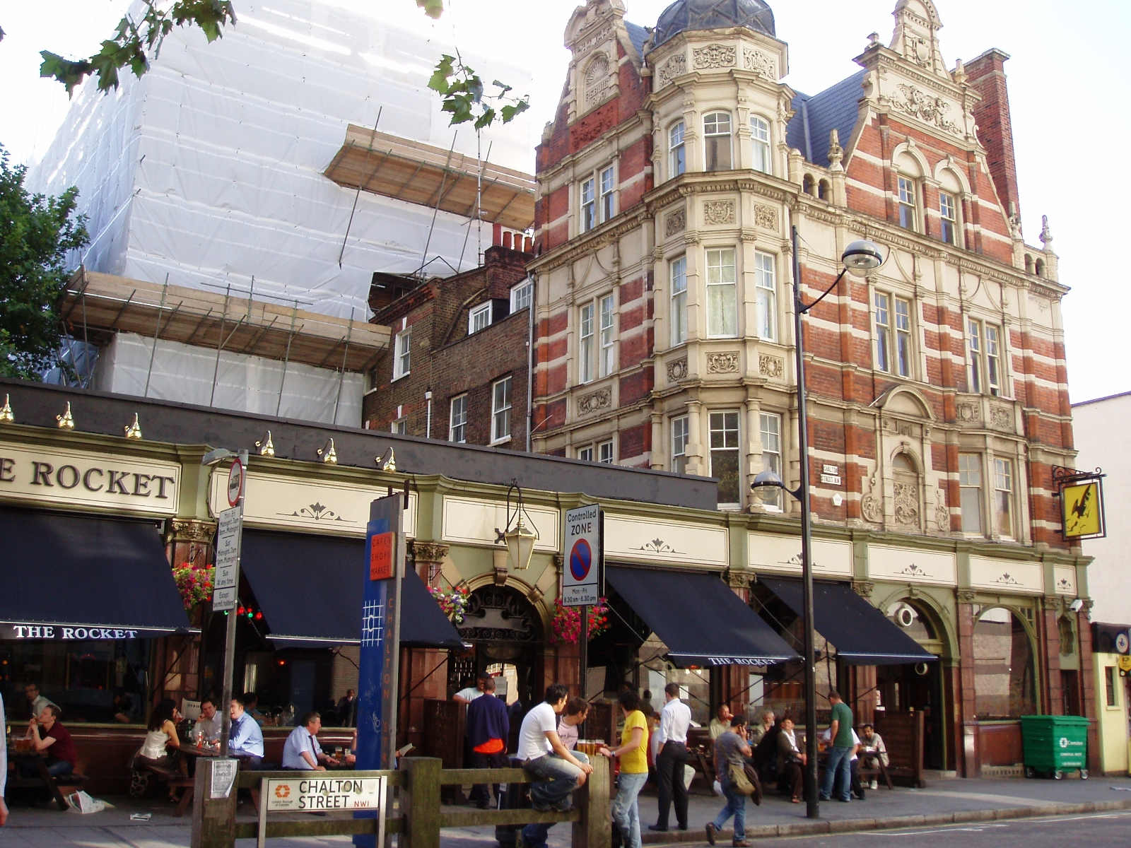 A grand old pub on Euston Rd, on the Euston station side. Former Name(s): The Rising Sun. Owner: Mitchells and Butlers Scream. Links: Fancyapint Beer in the Evening London Public House (history)